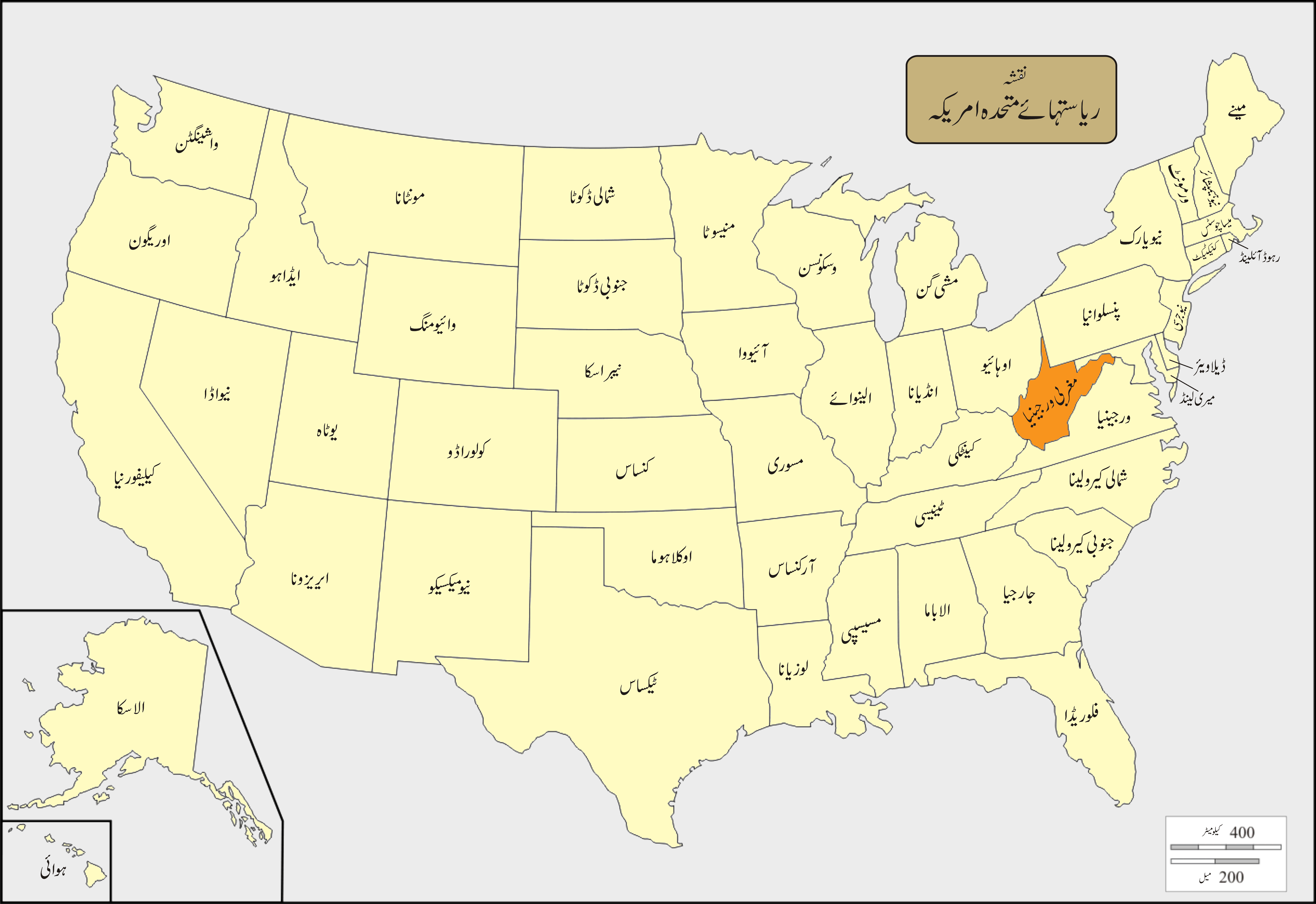 USA Names West Virginia